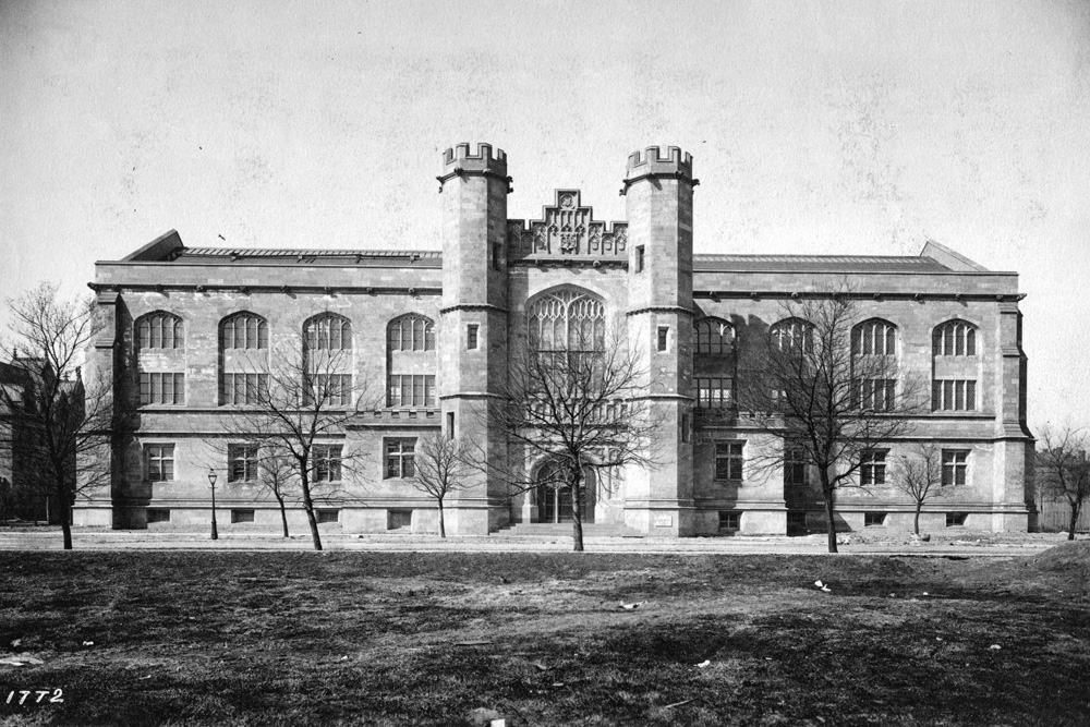 This is a photo of Bartlett Gymnasium located on the campus of the University of Chicago.